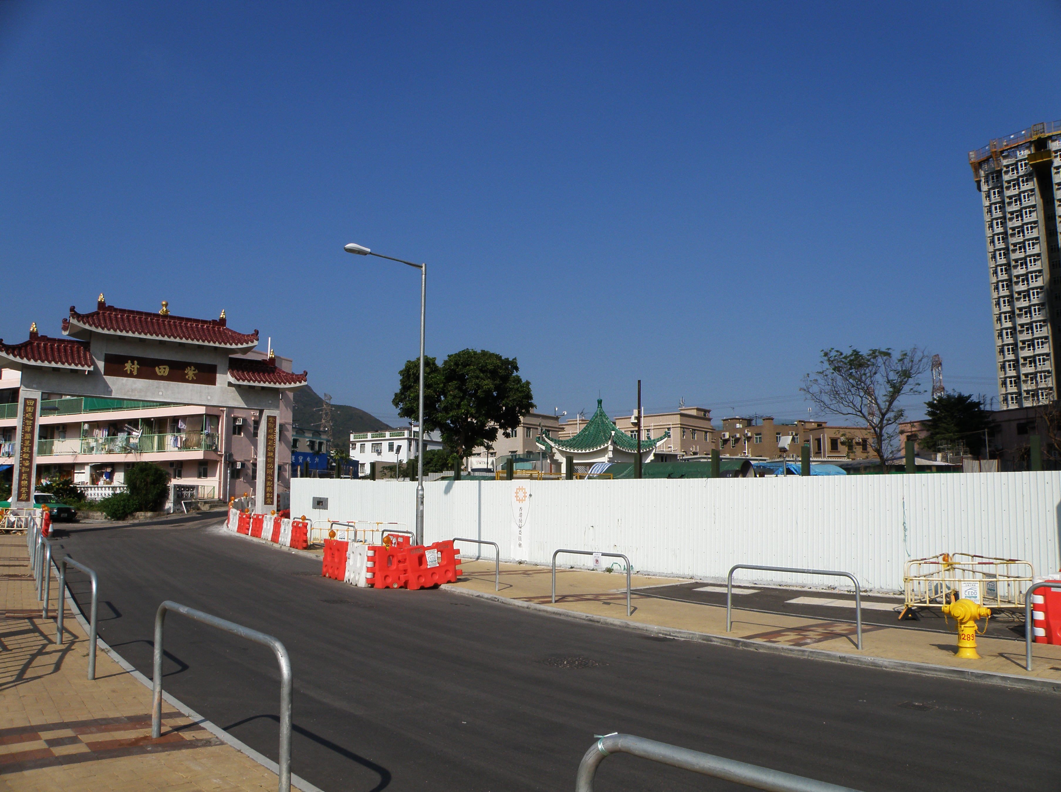 Tsz Tin Tsuen in Tuen Mun, Hong Kong.